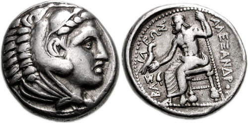 KINGS of MACEDON. Alexander III 'the Great'. 336-323 BC Amphipolis mint. Struck under Antipater (for Philip III), circa 322-320 BC.